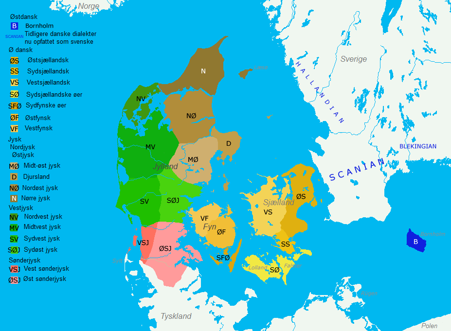 A map of Danish dialects.